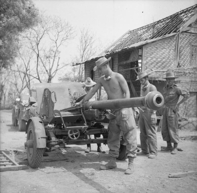 The British Army in Burma 1945 Men of the 17th Division inspect a Japanese Mk 9 75mm anti-tank gun captured at Kandaugn, 5 April 1945.